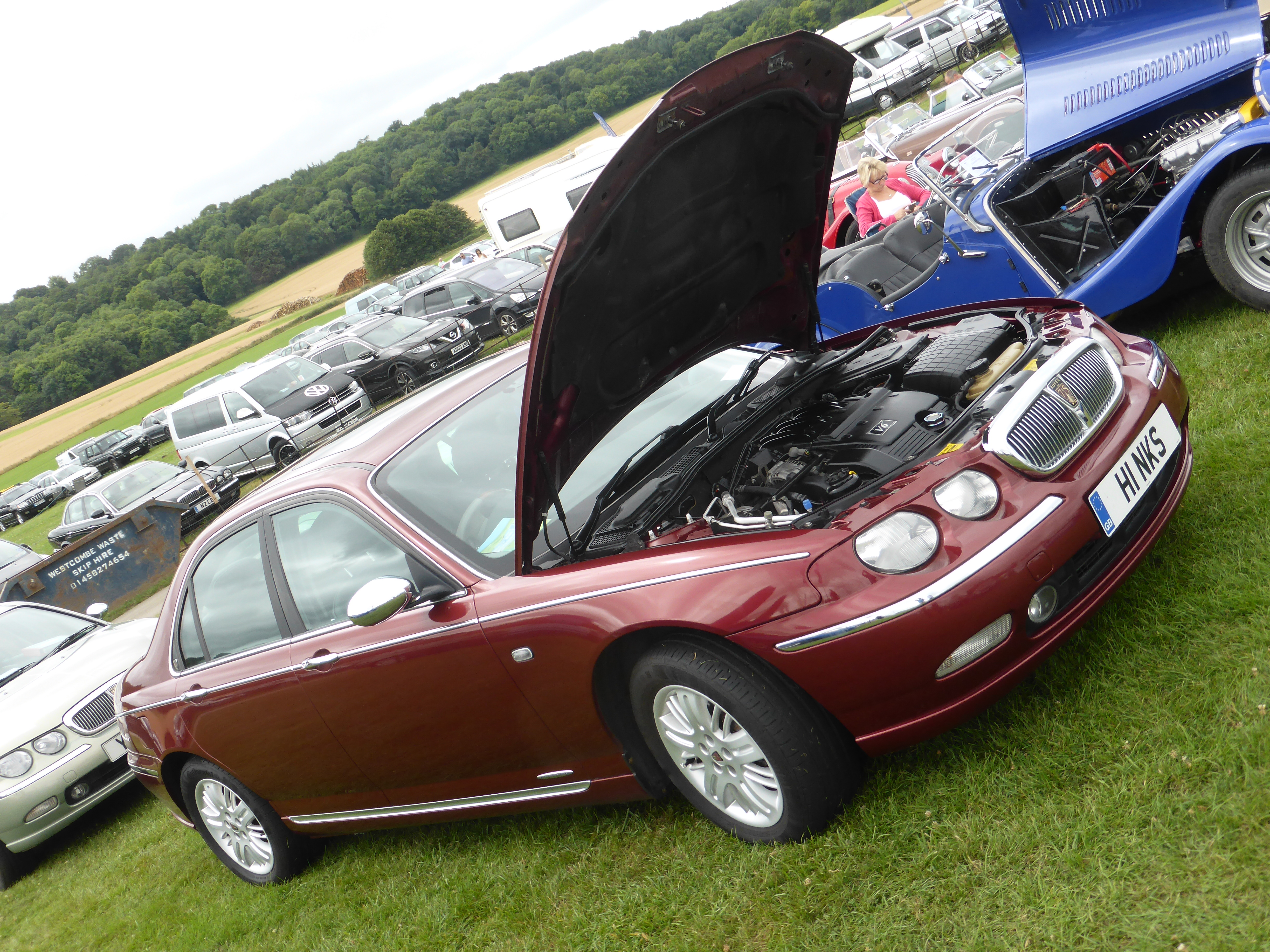 Classics at the Castle, Sherborne. One of my fave cars of the early 21st century. I love this colour and IMO the interior was gorgeous...